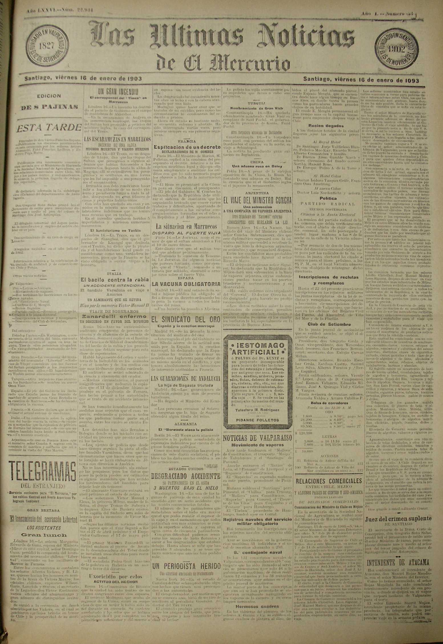 Chilean newspaper Las Últimas Noticias de El Mercurio (nowadays simply Las Últimas Noticias), dated 16 January 1903, number 53.